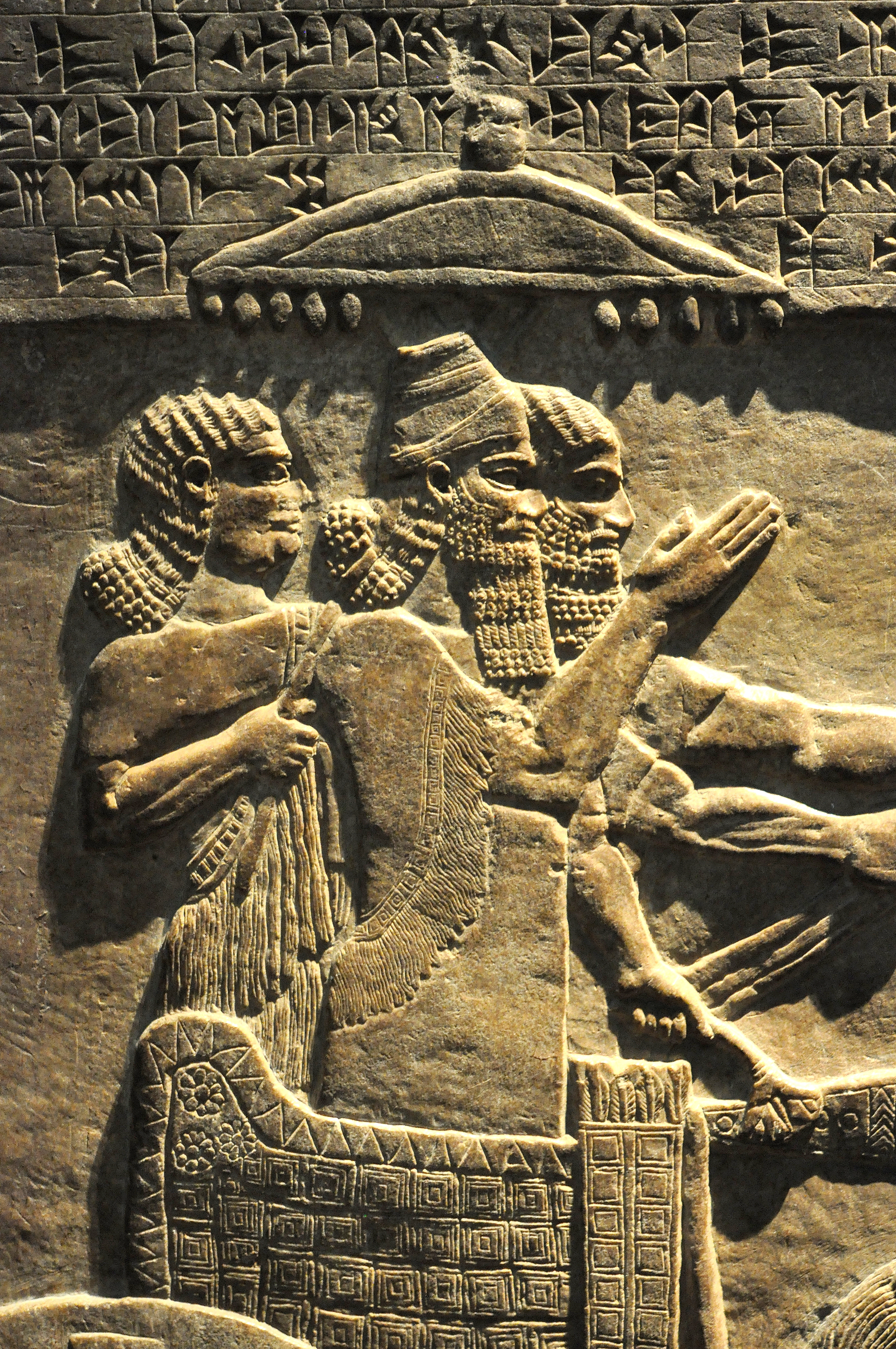 The Assyrian king, identified by his conical cap with a turban wrapped around it (so-called Polos), stands (under a parasol) in his royal chariot and raises his right arm in a greeting gesture. From the Central Palace (re-used in the South-West Place by Esarhaddon) ) at Nimrud (modern-day Ninawa Governorate, Iraq), Mesopotamia, Neo-Assyrian period, circa 730-727 BCE. The British Museum, London.